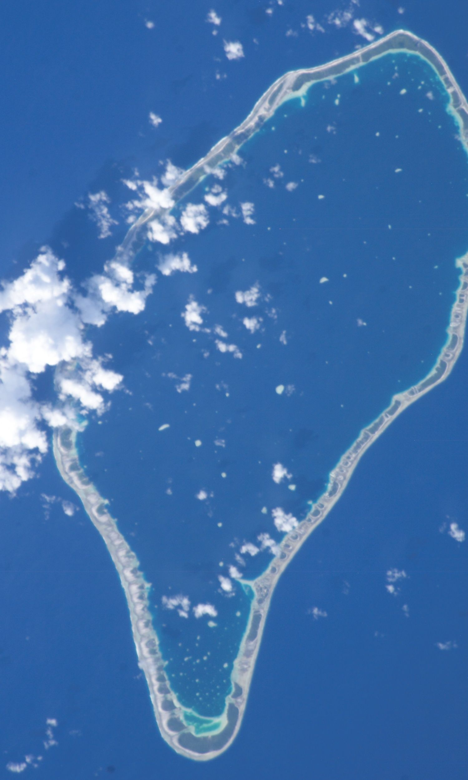 NASA Astronaut Image of Ahe Atoll(Tuamotu Archipelago, French Polynesia) in the Pacific Ocean